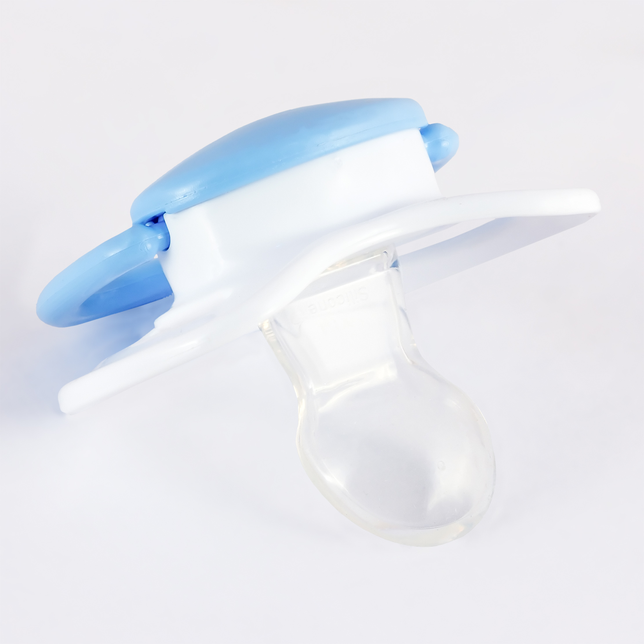 Dr. Brown's pacifier for newborn, 2015-08-03